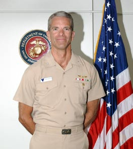 Navy Capt. Eric G. Kaniut is the officer in charge of OARDEC boards.